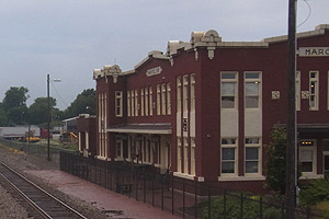 Marceline station in Missouri, 2015